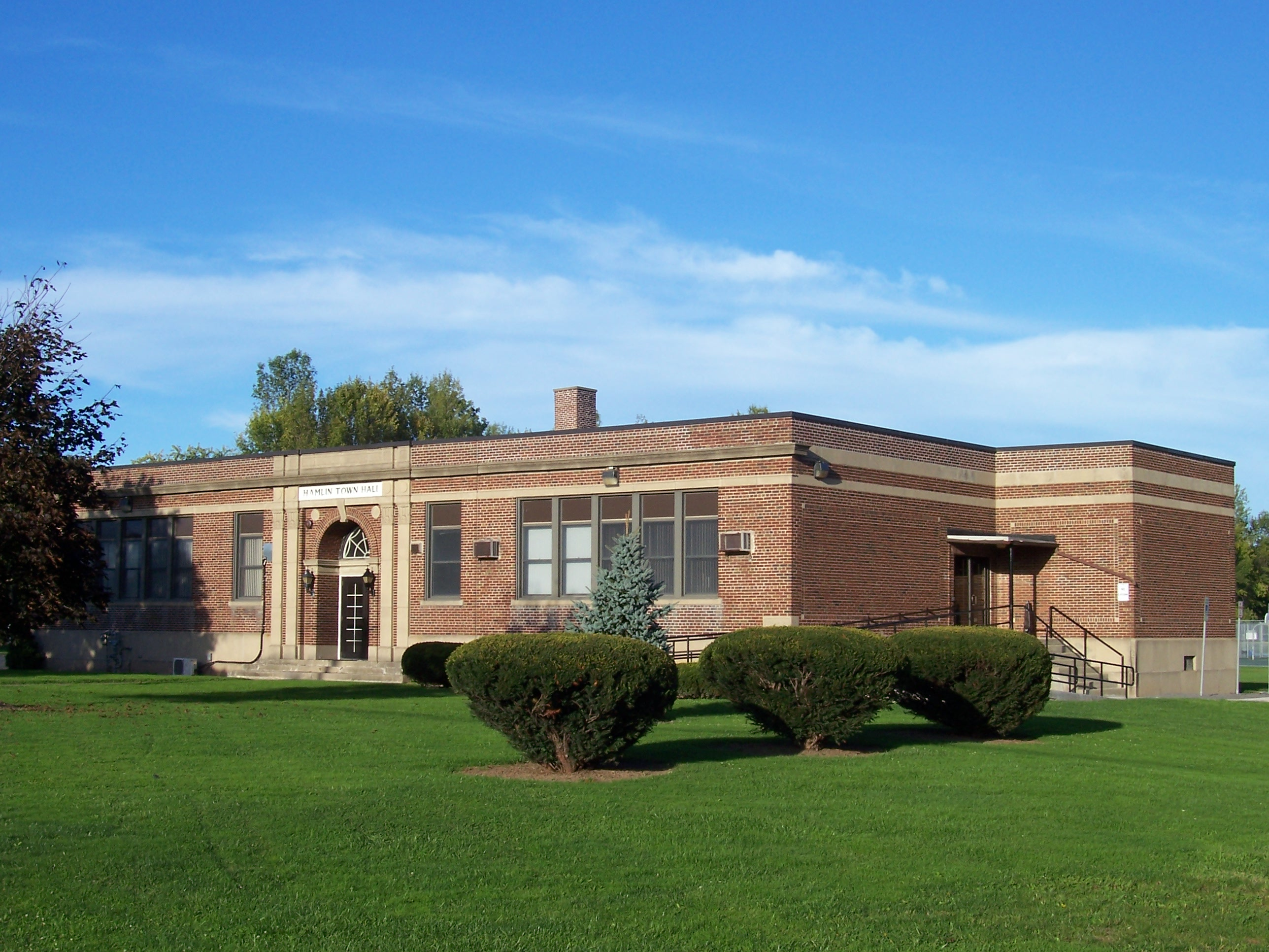 Hamlin, New York town hall